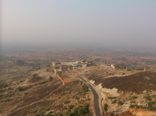 Shri Skhetra Kanakagiri